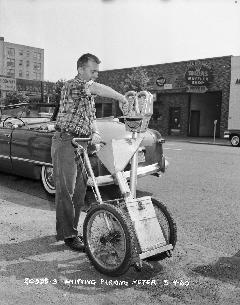 Worker emptying parking meter, Seattle, Washington, 1960.Item 63743, Engineering Department Photographic Negatives (Record Series 2613-07), Seattle Municipal Archives.